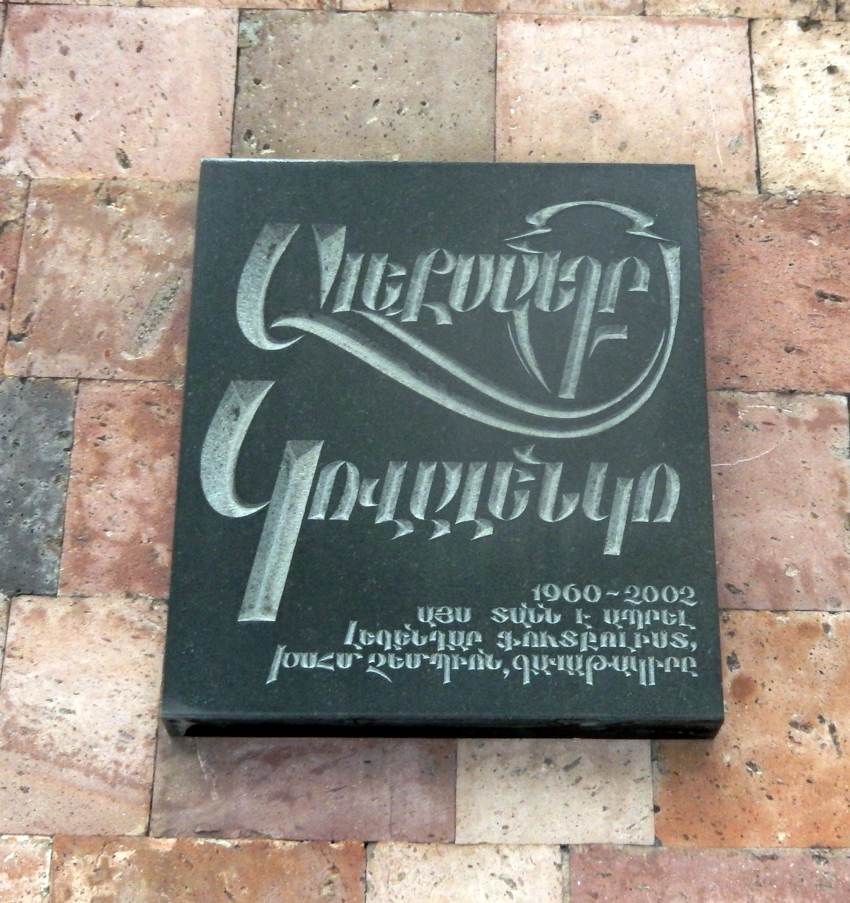 Plaque of Alexander Kovalenko on Komitas Avenue, Yerevan